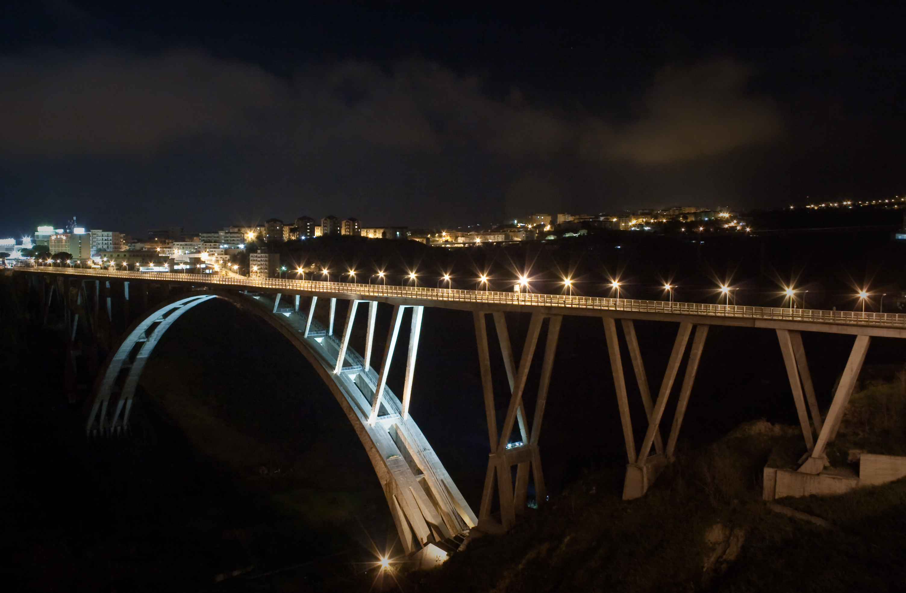 Bisantis viaduct